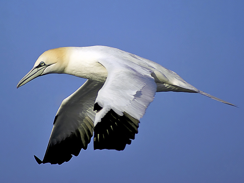 Northern Gannet, at the Bligh Bank on the Belgian continental shelf. Image fit for taxobox illustrations